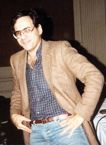 Steve Gerber at at a comic book convention in 1979